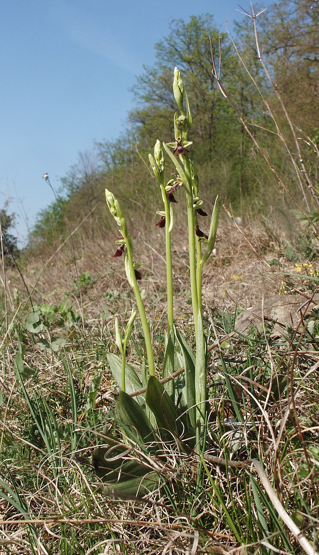 Ophrys insectifera, Tauberland, Germany